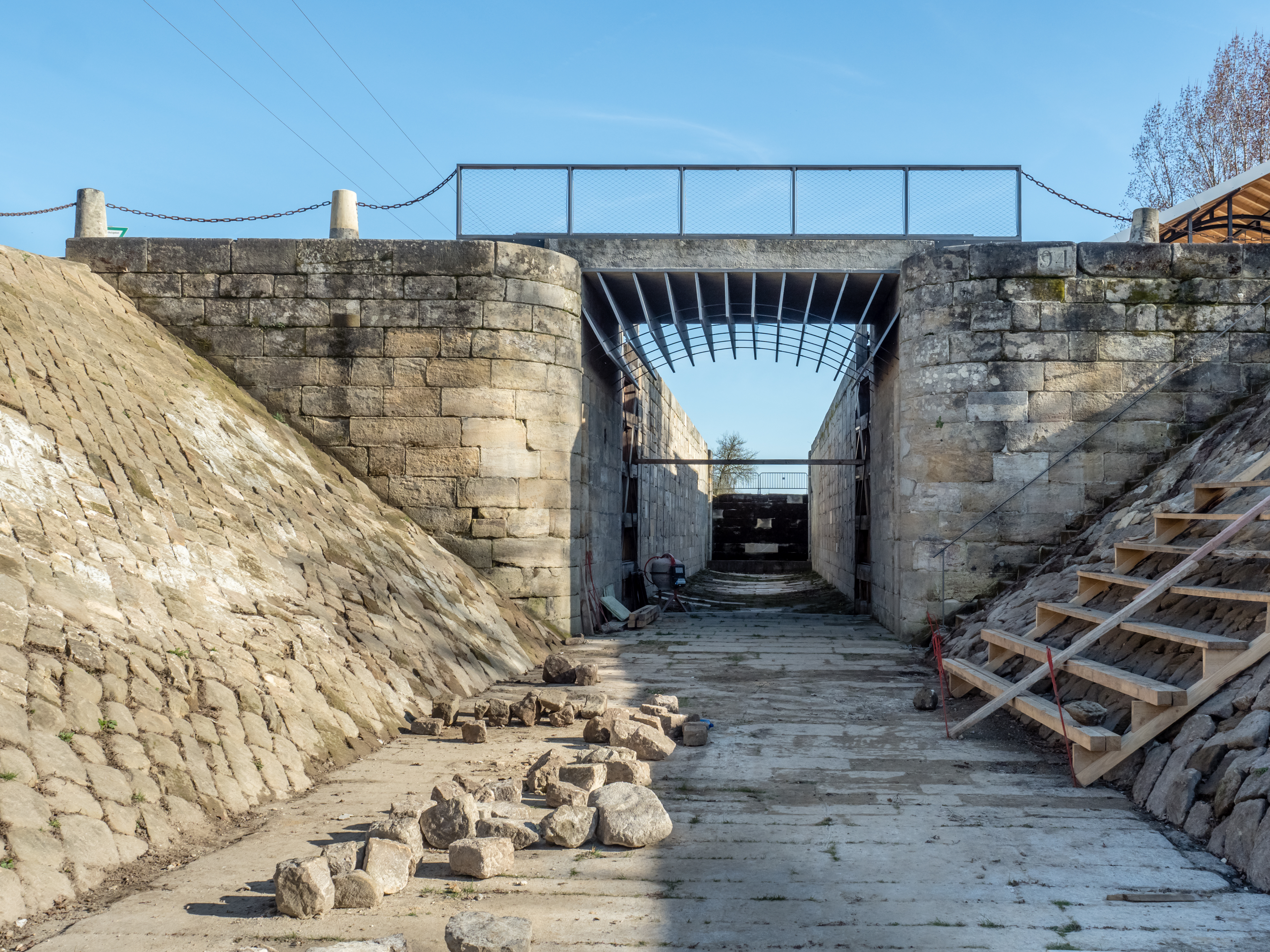 Sluice 94 of the Ludwig-Danube-Main-Canal in Eggolsheim